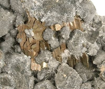 Calaverite, Quartz Locality: Doctor Mine (Jackpot Mine), Cripple Creek District, Teller County, Colorado, USA (Locality at ) Size: 9.6 x 5.6 x 3.9 cm. An unusually attractive specimen with very metallic calaverite crystals laying flat amongst rolling quartz druse, and so not etched or cleaved out of surrounding matrix as you usually see for this material. Rather, the natural matrix surface is the host for embedded calaverite crystals of unusual thick and platy form, looking more solid and robust like andorite than normal wispy calaverite! The cluster of aggregate crystals is about 1.4 x 1 cm across. Ex. Rice Northwest Museum Collection.